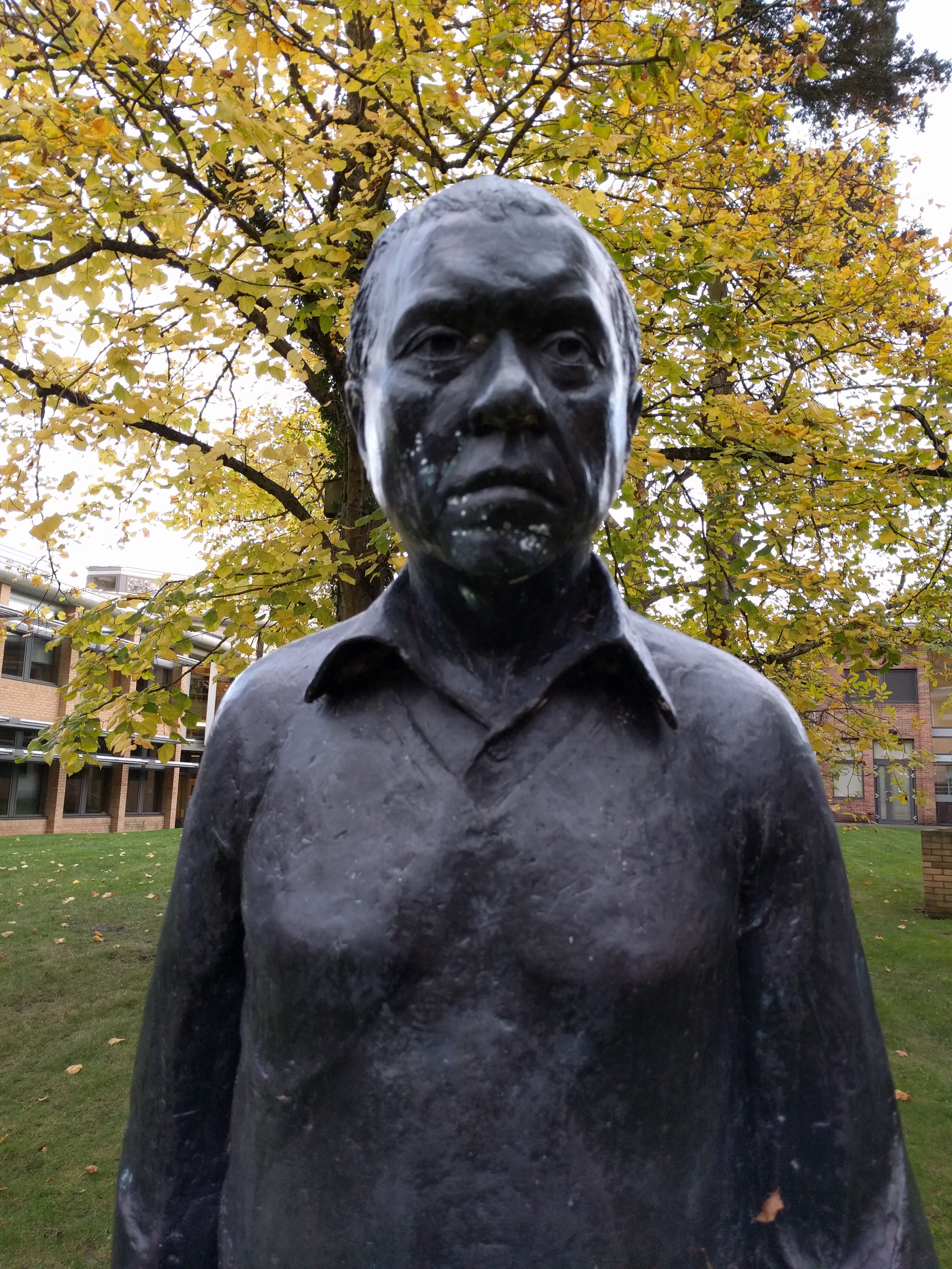 Institute of Astronomy, statue of Sir Fred Hoyle in close up